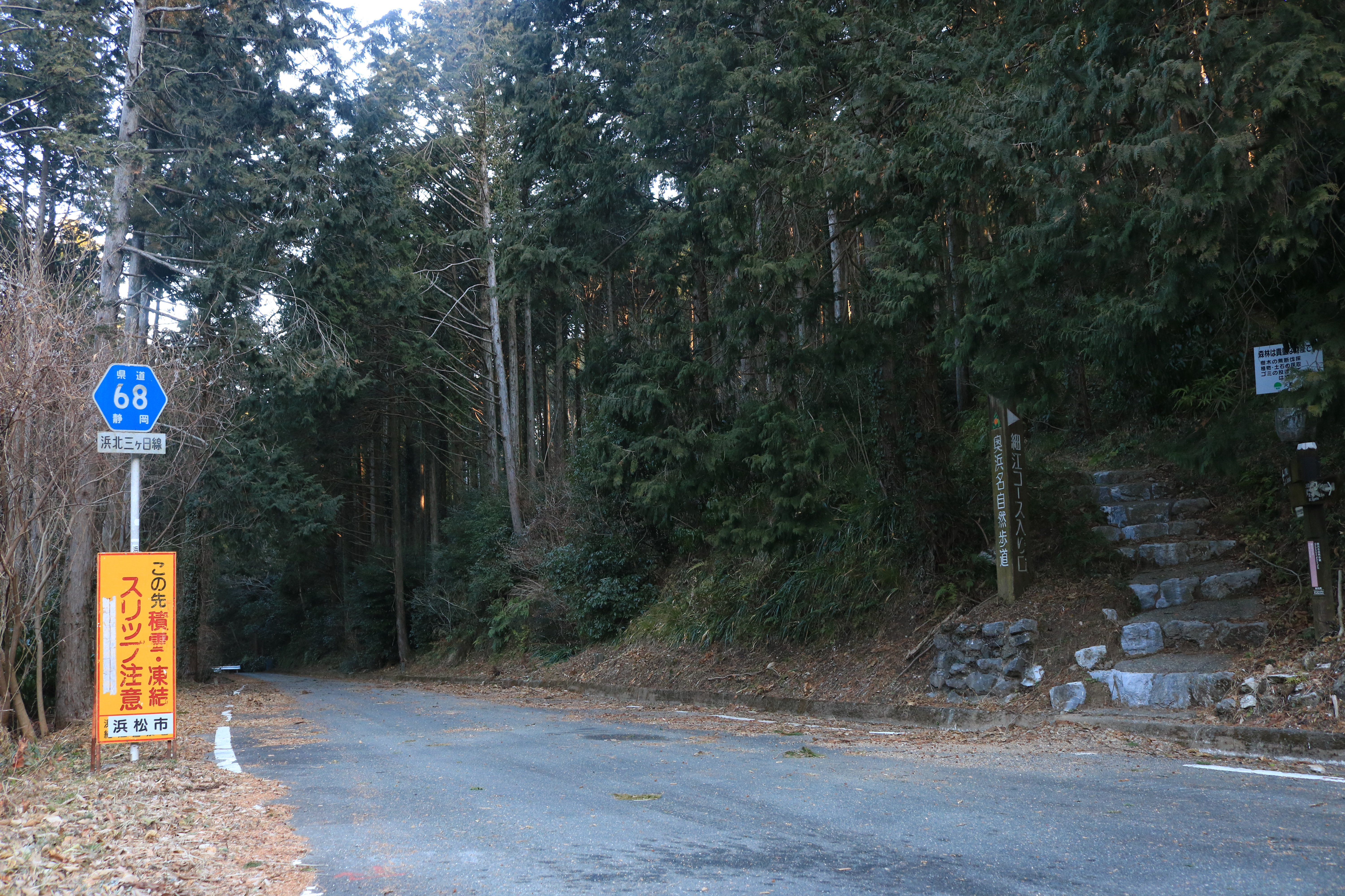 Shizuoka Prefectural Road Route 68 in Kazakoshi Pass, Okuyama, Inasacho, Kita-ku, Hamamatsu, Shizuoka Prefecture, Japan.